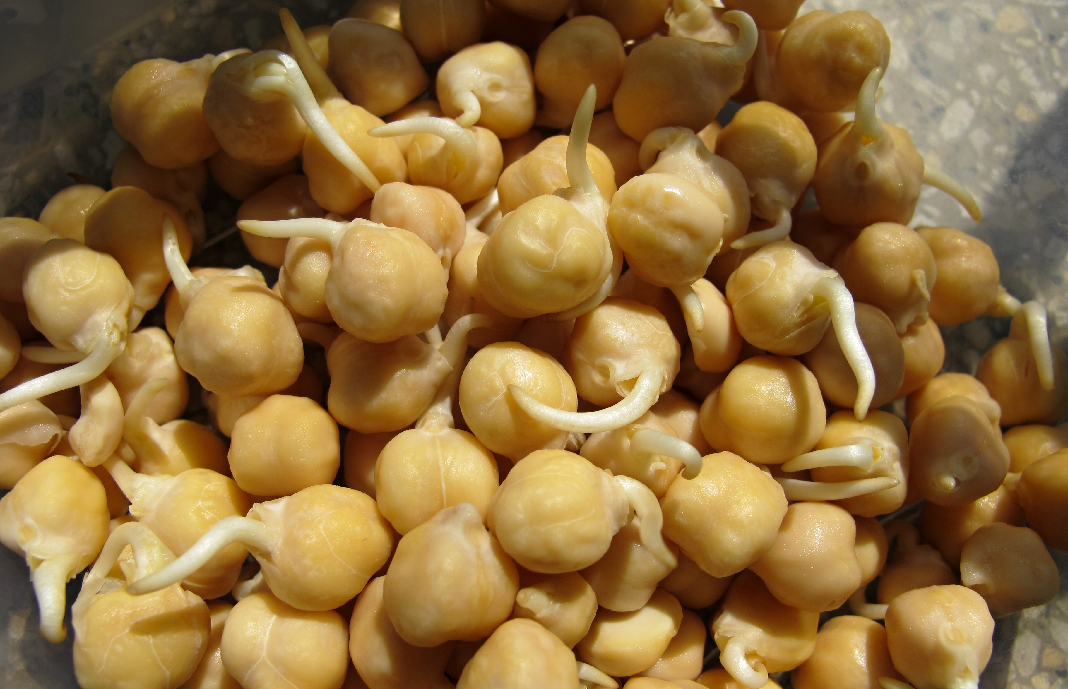 Sprouted chickpeas